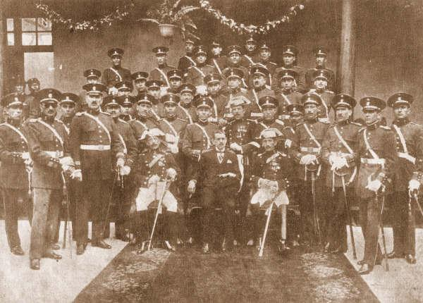 First Promotion of Officers graduated from the School of the Civil Guard and police on September 3, 1923